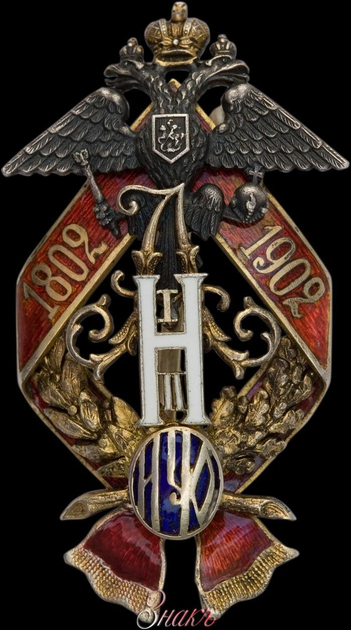 IMPERIAL PHILANTHROPIC SOCIETY was the largest charitable establishment of the 19th - early 20th centuries in Russia. It was founded on 16 May 1802 by Emperor Alexander I